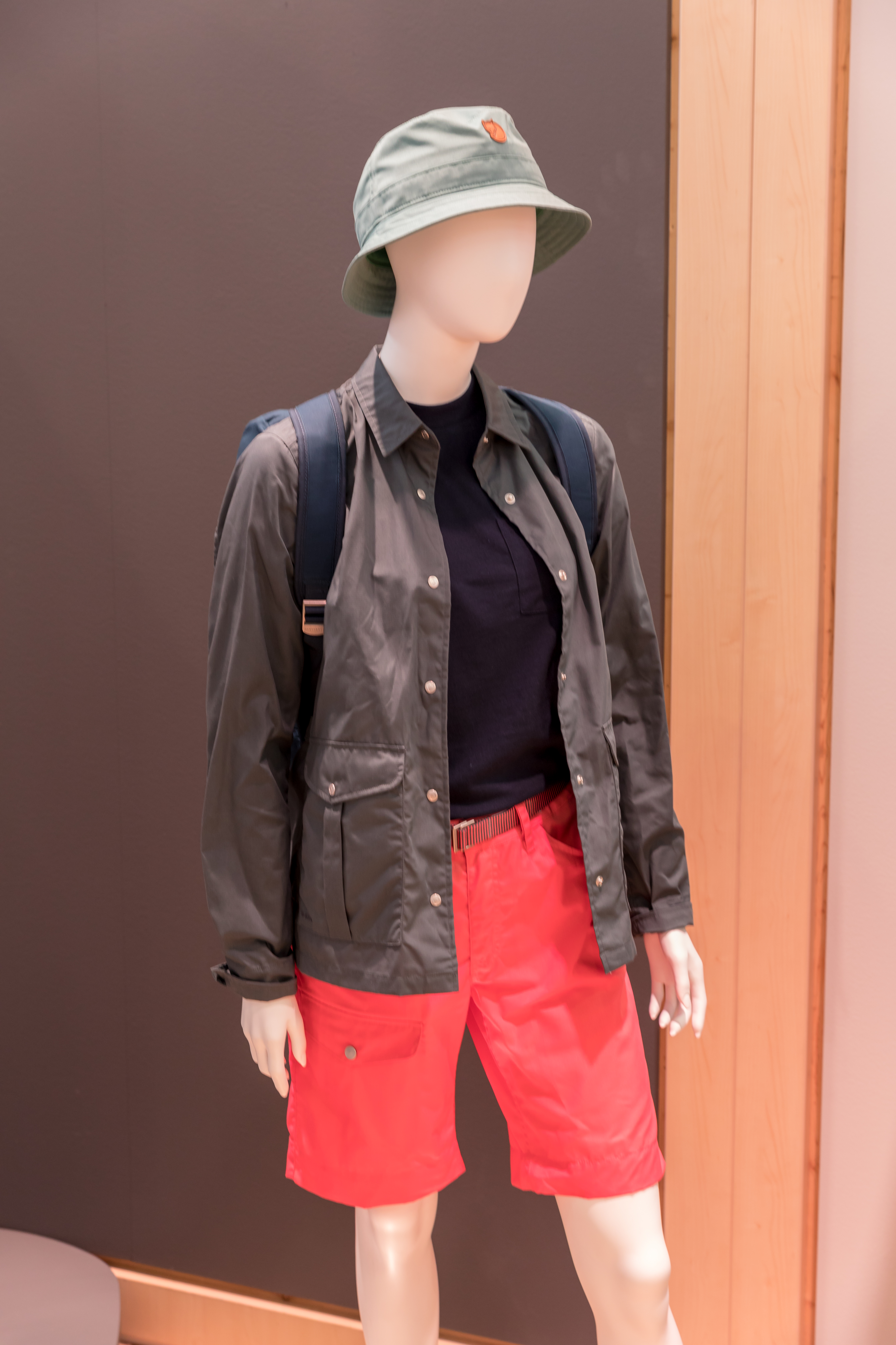 OutDoor 2018